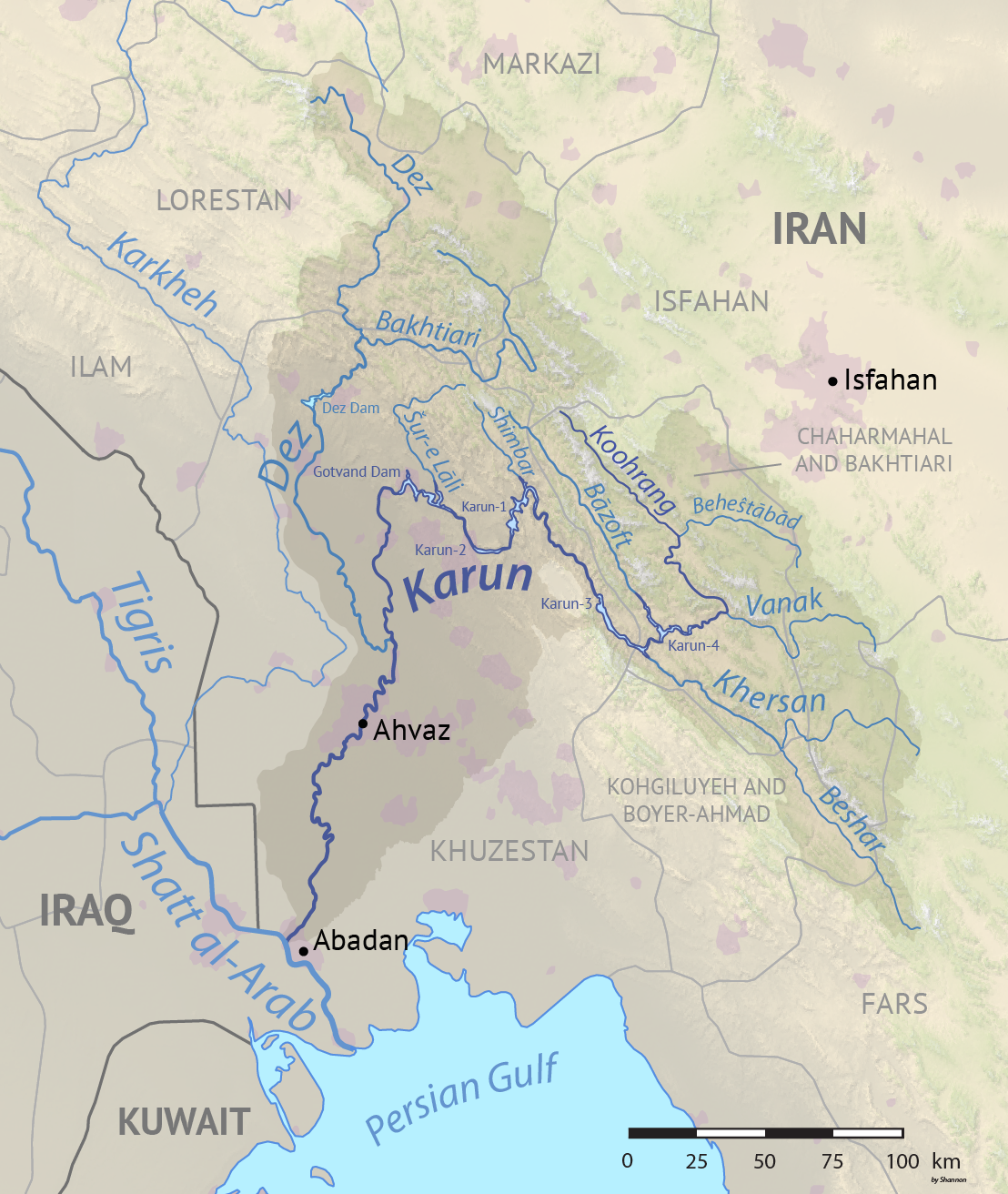 Map of the Karun river drainage basin, Iran. Made using public domain Natural Earth and USGS data. Intended to replace older map